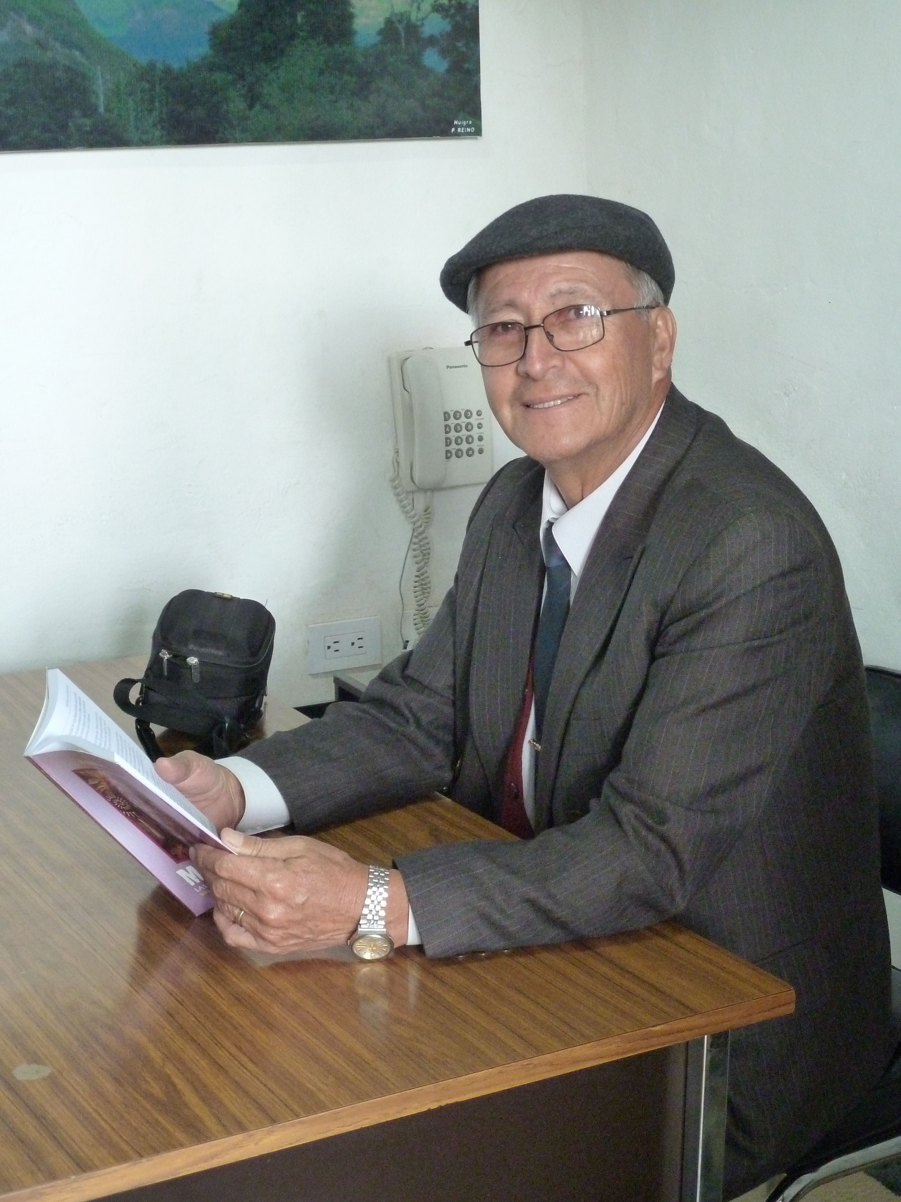 Ecuadorian author, historian and journalist Pedro Arturo Reino Garcés in his office in the Quinta de Juan León Mera, Ambato, Ecuador, July 2012